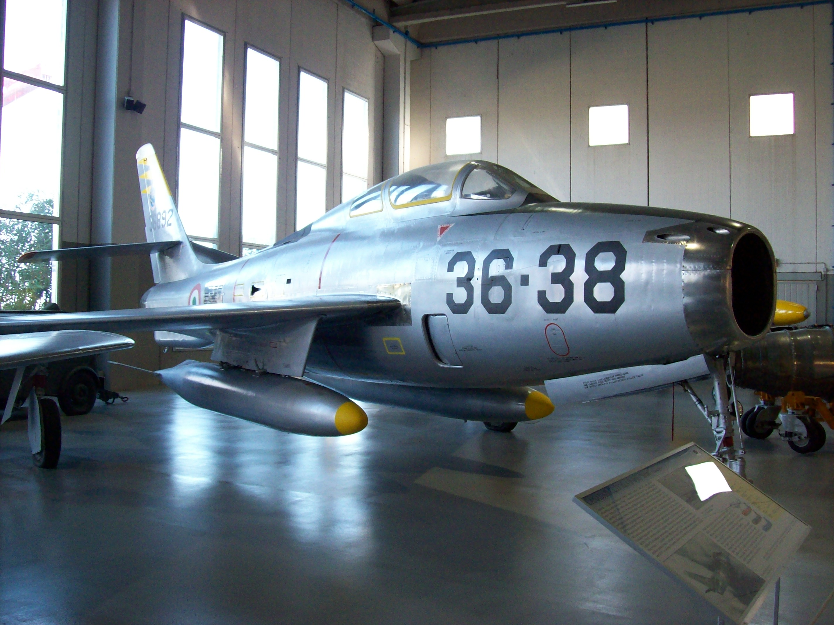 A Republic F-84F Thunderstreak operated by the Italian Air Force